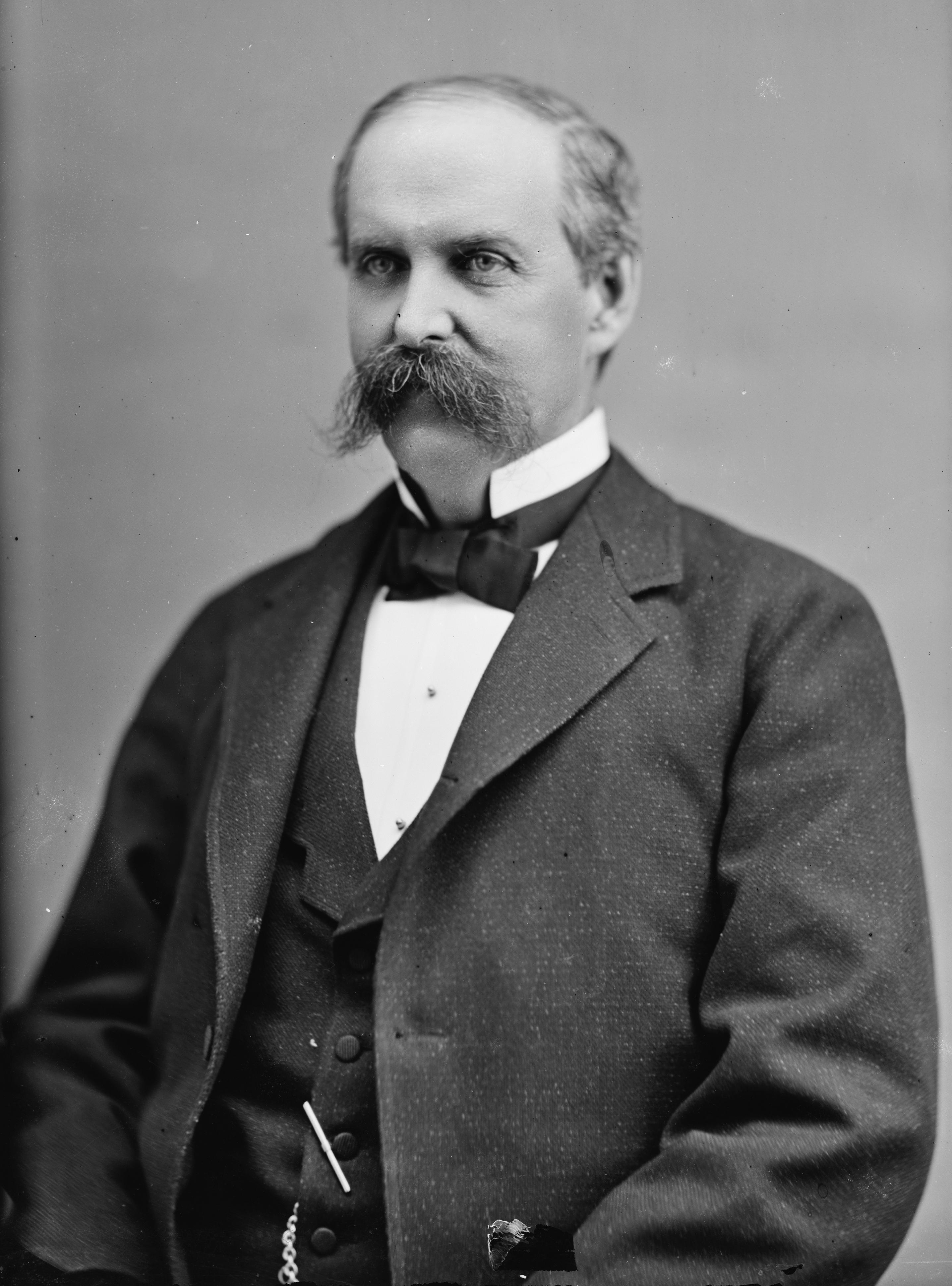 Nathaniel P. Hill. Library of Congress description: "Hill, Hon. Nathaniel Peter of Colorado"